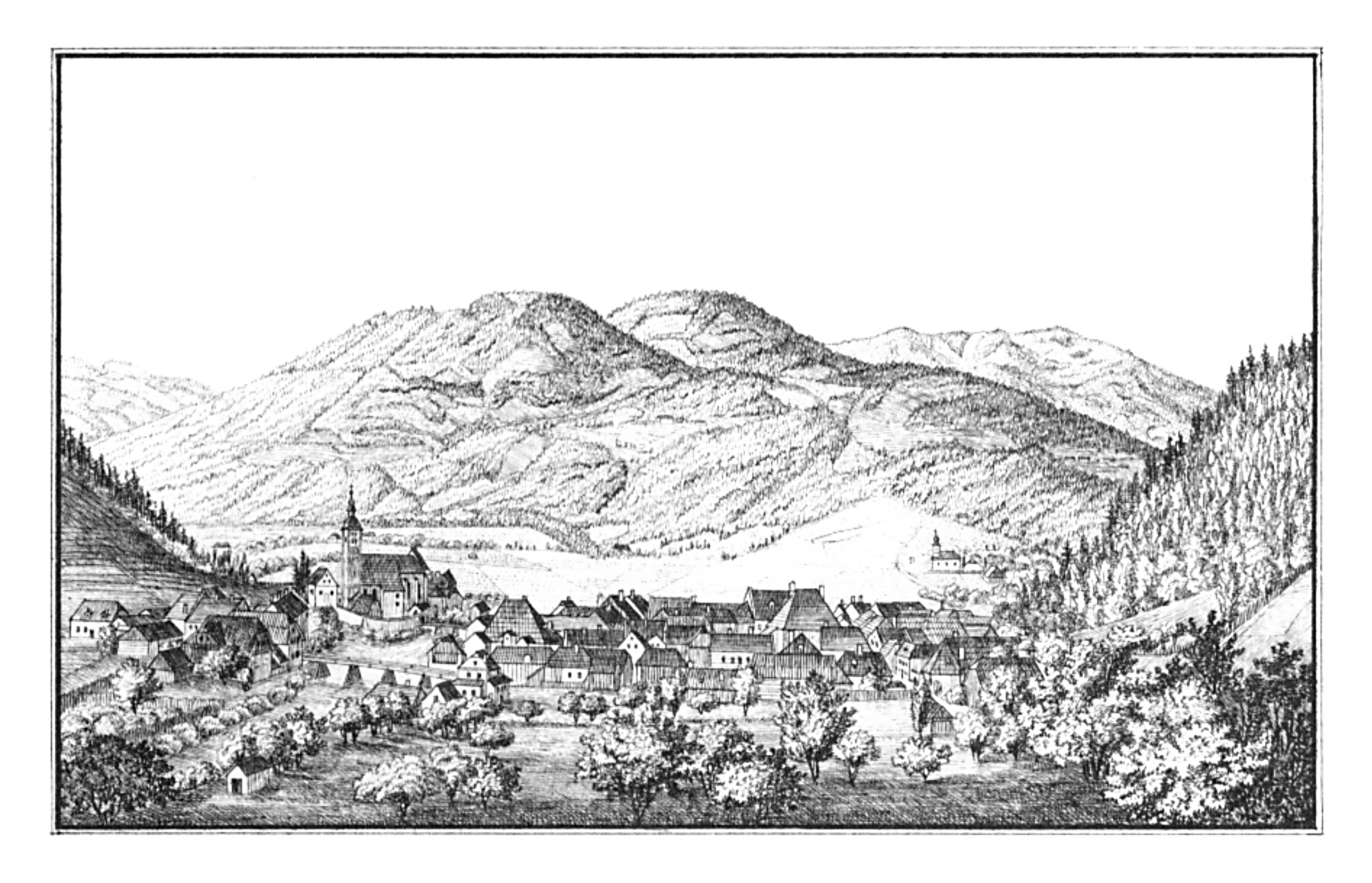 J. F. Kaiser - lithographirte Ansichten der Steyermärkischen Städte, Märkte und Schlösser, Graz 1824-1833 Joseph Franz Kaiser (1786–1859) Alternative names J. F. KaiserDescriptionAustrian printer and editorDate of birth/death 11 March 1786 19 September 1859Location of birth/death Graz (Styria) GrazAuthority control : Q1499963 VIAF: 30629353 ISNI: 0000 0000 3083 0153 LCCN: n87141671 GND: 129880159 NLP: A24960305 WorldCat creator QS:P170,Q1499963 . Scanprojekt Community Projektbudget 2012 This scan or this PDF-file was created within the GLAM-project Bookscanning, supported by Wikimedia Germany and Wikimedia Austria as a part of the community-project to capture books, documents and pictures which are not eligible to copyright or for which the copyright has expired. This document describes or depicts an object which is located in Austria today. Send requests for uncompressed scans to Hubertl. This work is in the public domain in its country of origin and other countries and areas where the copyright term is the author's life plus 100 years or less. You must also include a United States public domain tag to indicate why this work is in the public domain in the United States. This file has been identified as being free of known restrictions under copyright law, including all related and neighboring rights.